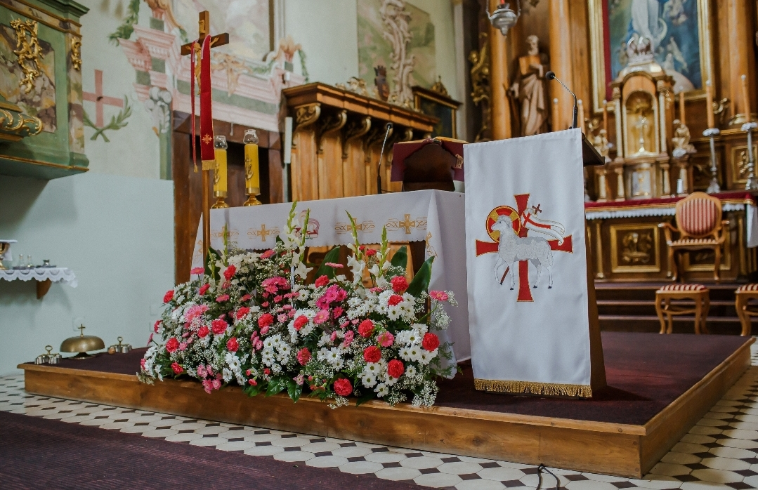 Altar Żółkiewka